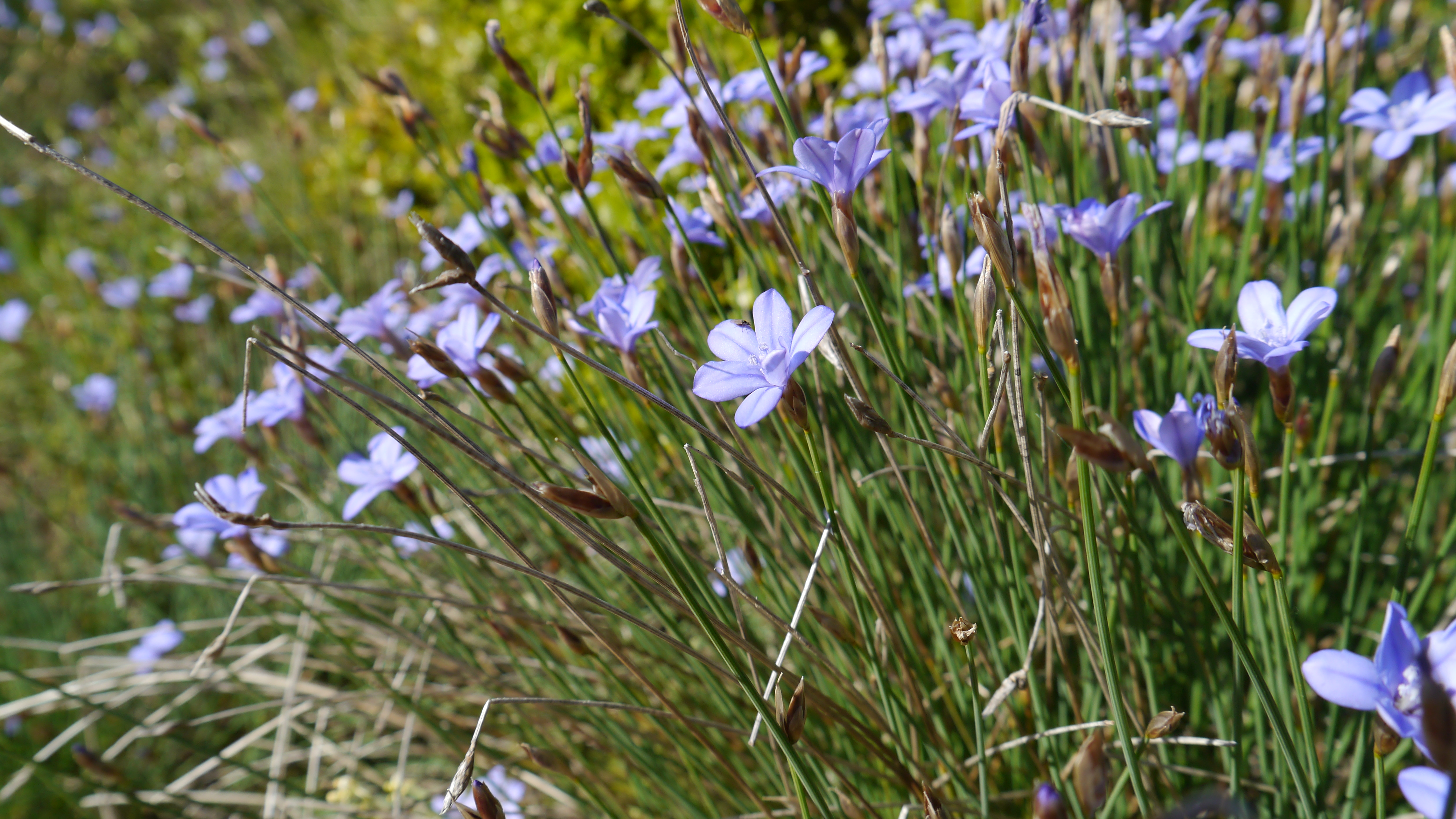 Aphyllanthes monspeliensis